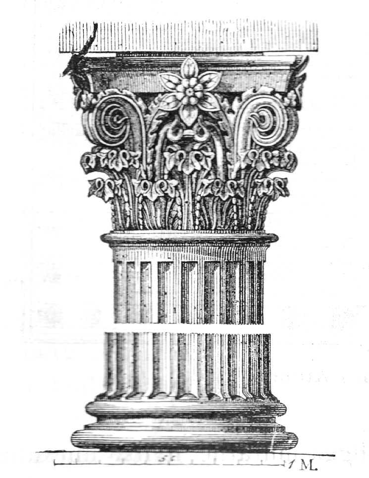 Illustration from Illustrerad verldshistoria by E. Wallis, volume I. "Korinthian basis and capital."